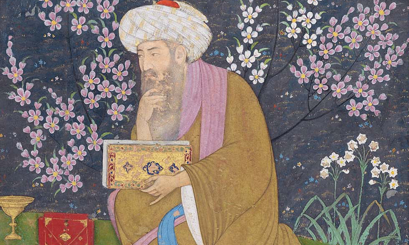 Sahib ibn Abbad, one of the greatest, if not the greatest Persian vizier of the Daylamite Buyid dynasty.